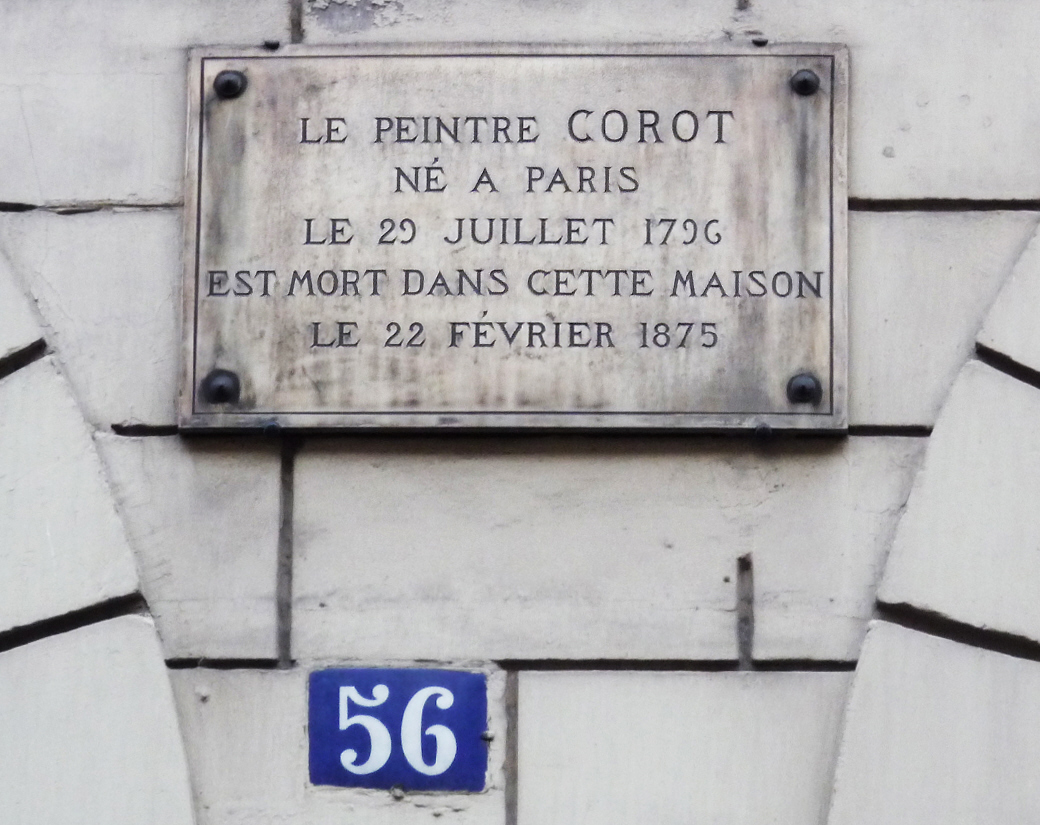 Photo of plaque at the home of Camille Corot (1796-1875), French painter, commemorating where he died 22 February 1875; address: 56, rue du Faubourg-Poissionnière, Paris, 10th arrondissement